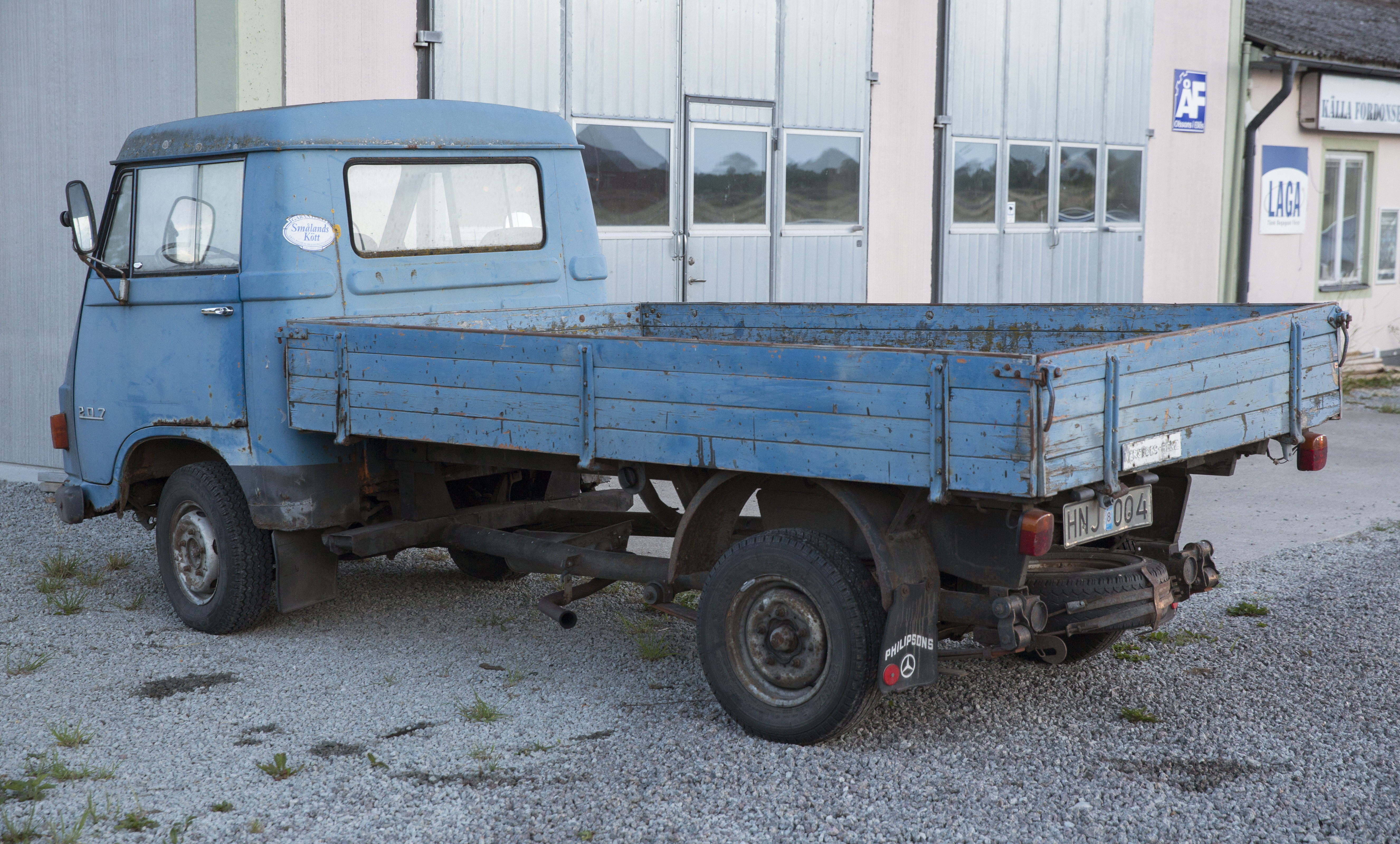 1975 Mercedes-Benz L207 truck. 70PS petrol engine, and still in traffic! On Öland, Sweden.